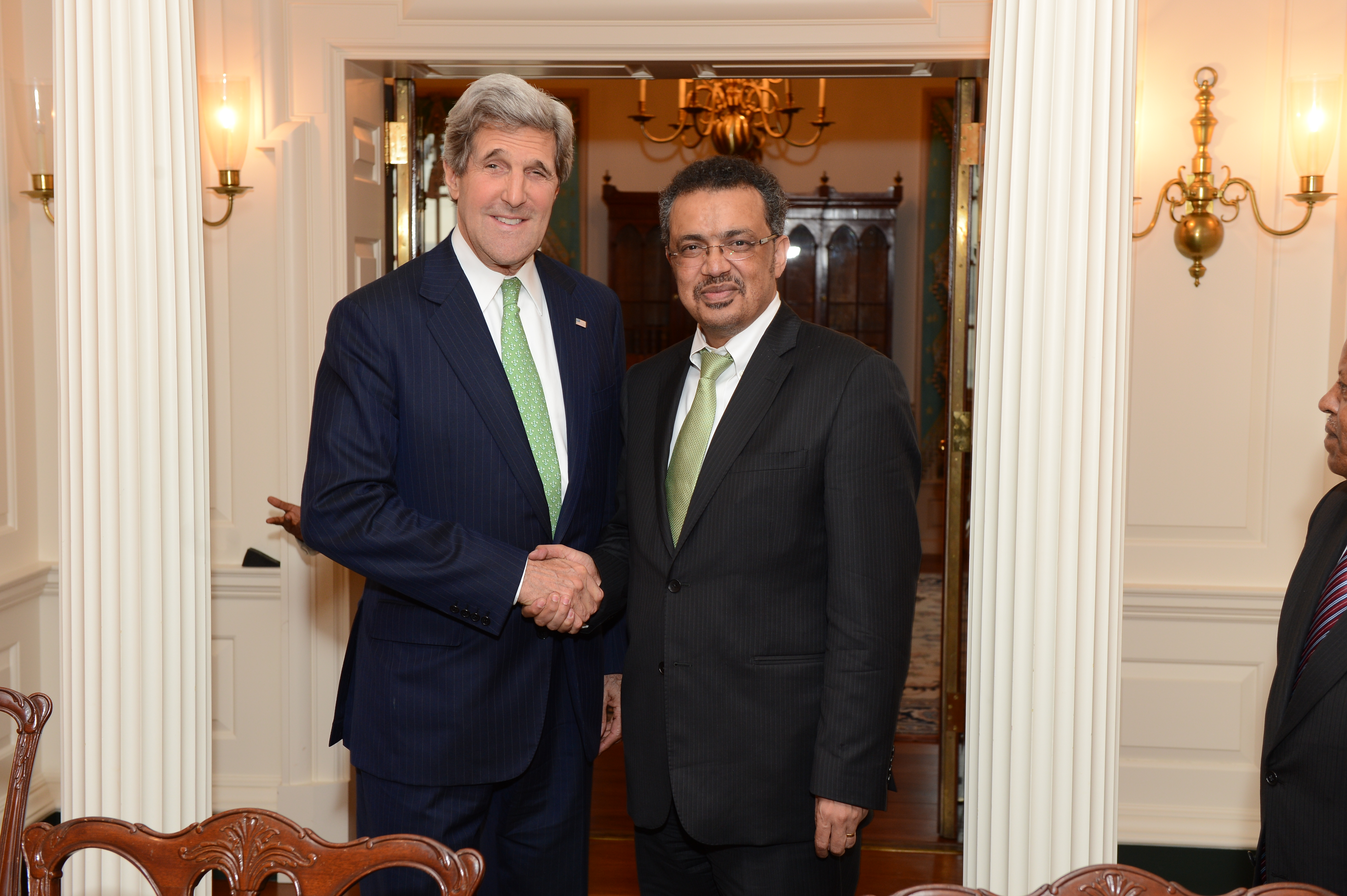 U.S. Secretary of State John Kerry meets with Ethiopian Foreign Minister Tedros Adhanom at the U.S. Department of State in Washington, D.C., on April 30, 2013. [State Department photo/ Public Domain]